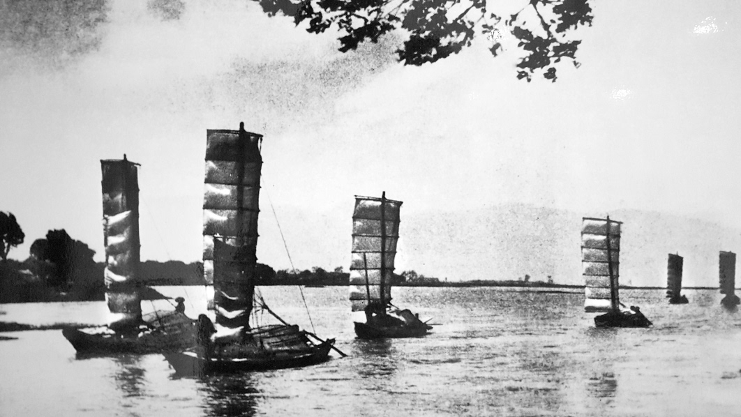 Chinese sailing junks on Lake Dian (滇池), Kunming (昆明), Yunnan (云南), circa 1940s